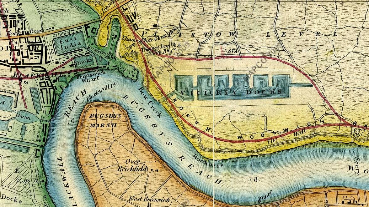 Mapc.1872 showing Victoria Docks (now Royal Victoria Docks), the area that is now Canning Town and parts of the Greenwich Peninsula, London, UK. Also shows location of Thames Ironworks & Shipbuilding Company.